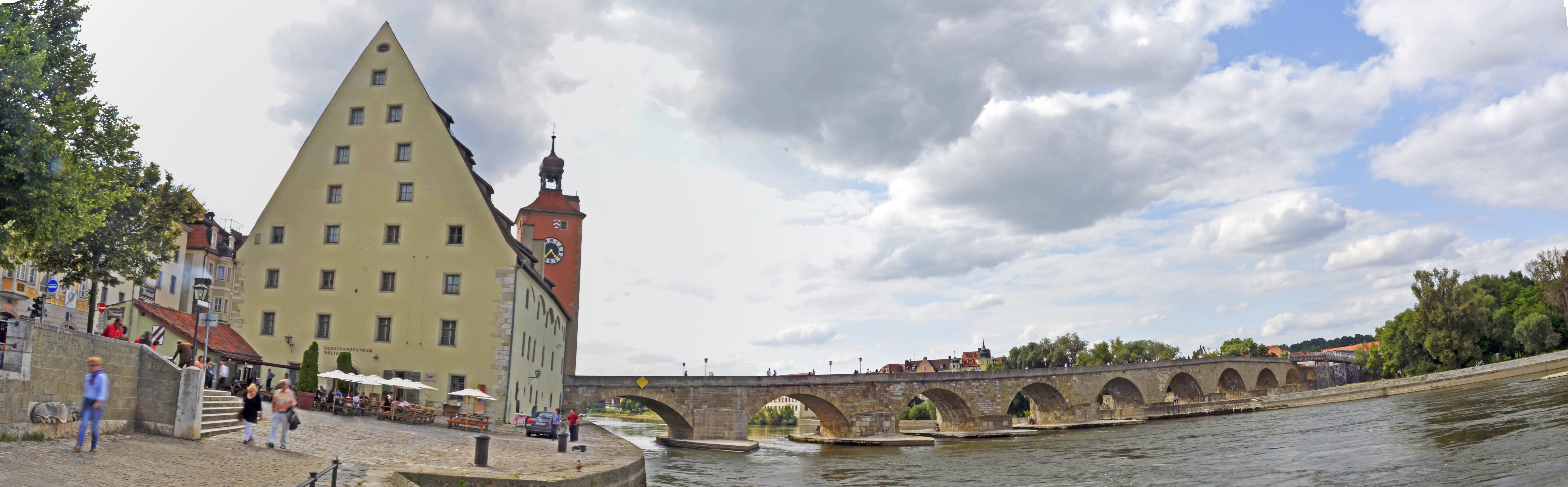 Romain Stone Bridge in Regensburg (Germany) (Panoramic Image from the East)